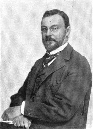 Photo of Robert W. DeForest